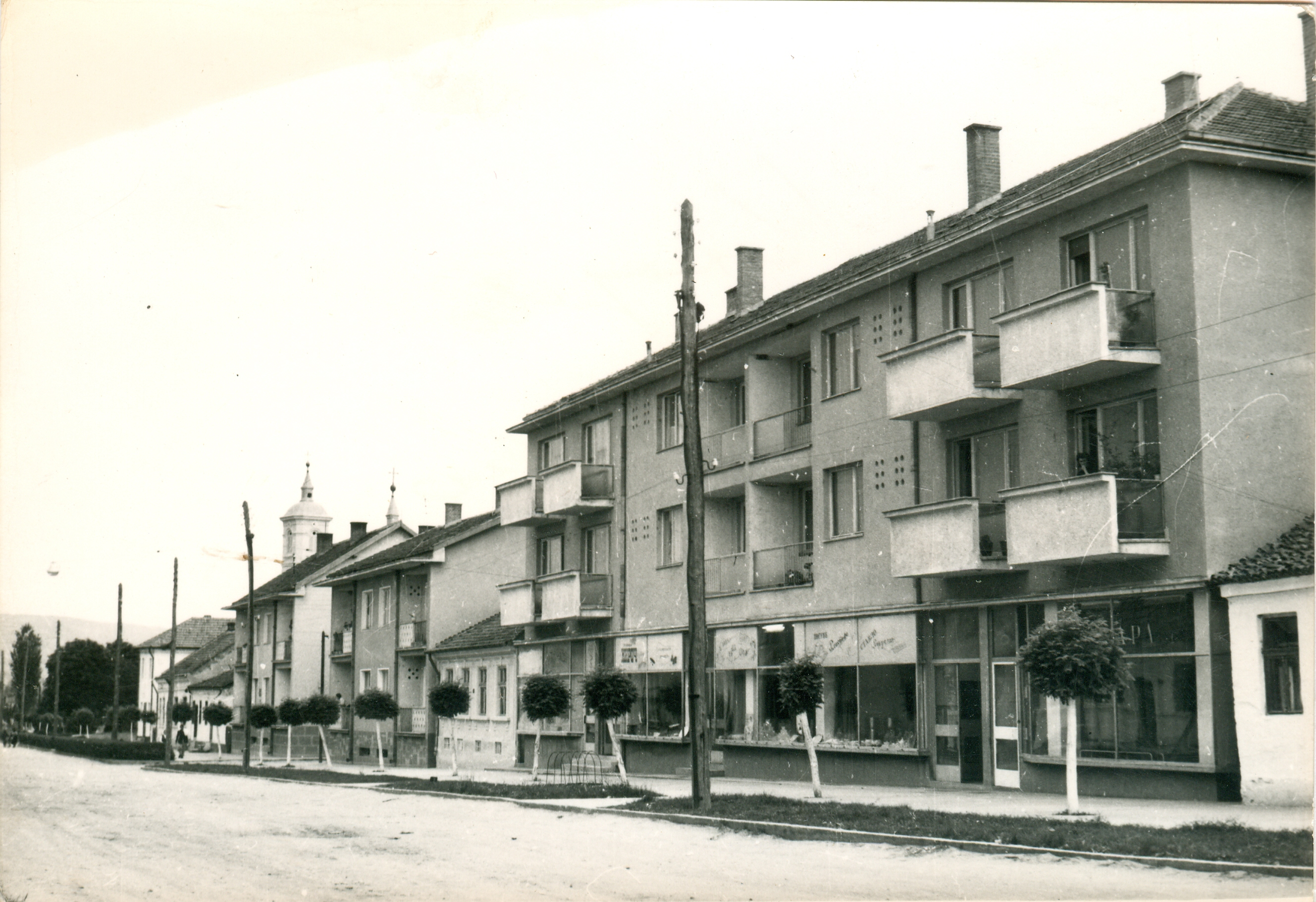 Kladovo in 1970s Srpski (latinica): Kladovo sedamdesetih godina 20. veka